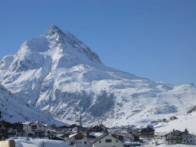 Galtür and Ballunspitze